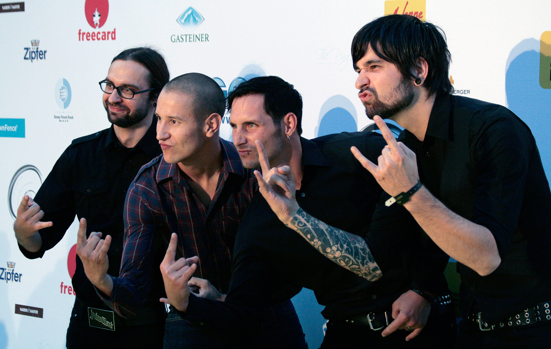 The Sorrow at the Amadeus Austrian Music Award (Museumsquartier, Vienna)